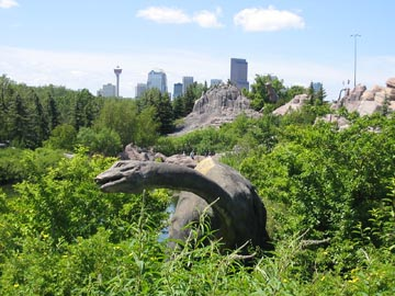 Sculptures at Calgary Zoo